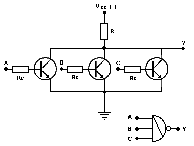 NOR in RTL technology